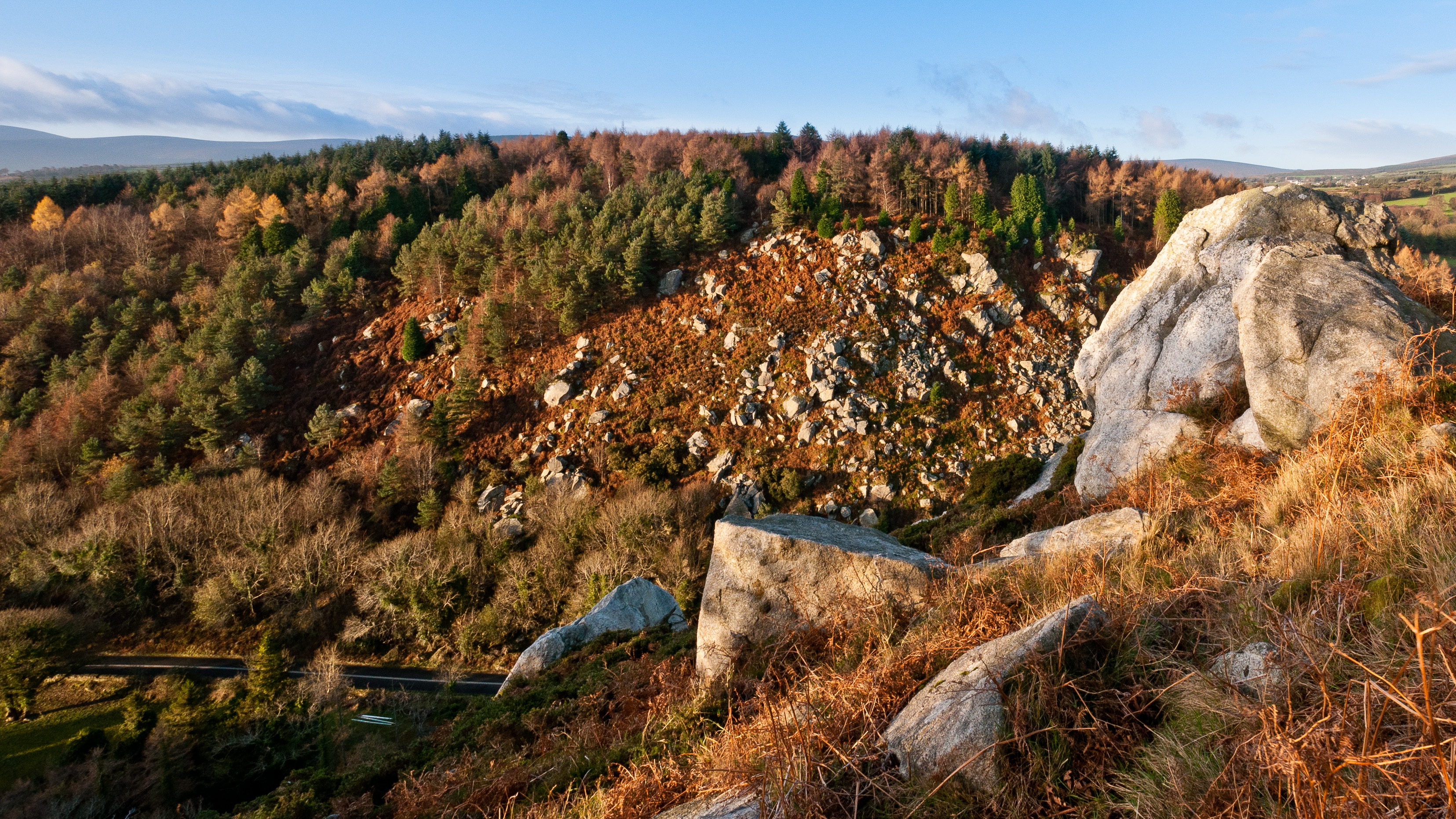 View of The Scalp, Kiltiernan, County Dublin, Ireland as seen from the summit of Barnaslingan Hill